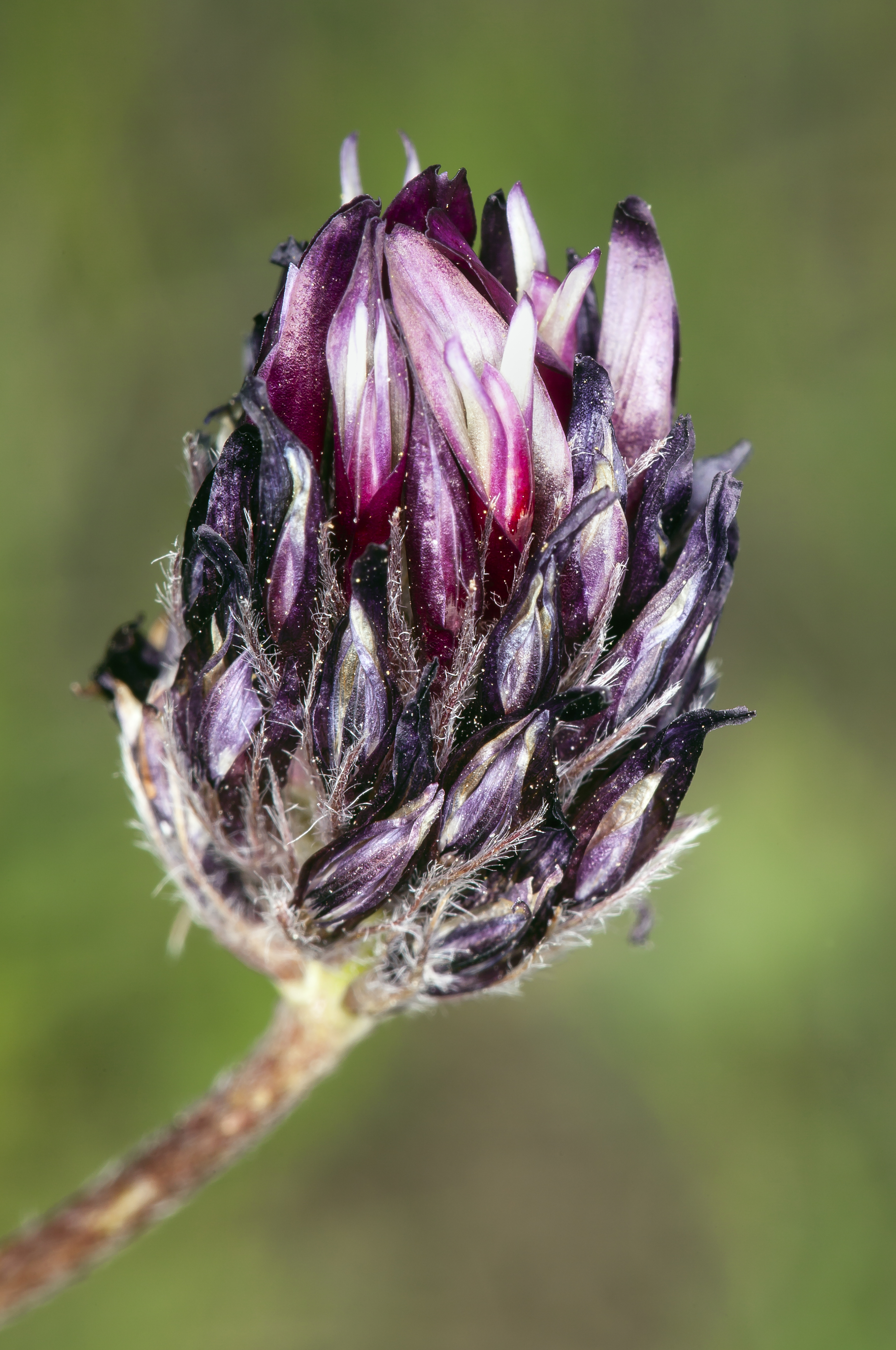 Trifolium longipes subsp. atrorubens (longstalk clover). This close view of the flower head shows the intense dark purplish color of the outside of the flowers of this clover. At the edge of a large meadow near Bluff Lake, Big Bear Lake area, San Bernardino Mountains, California.